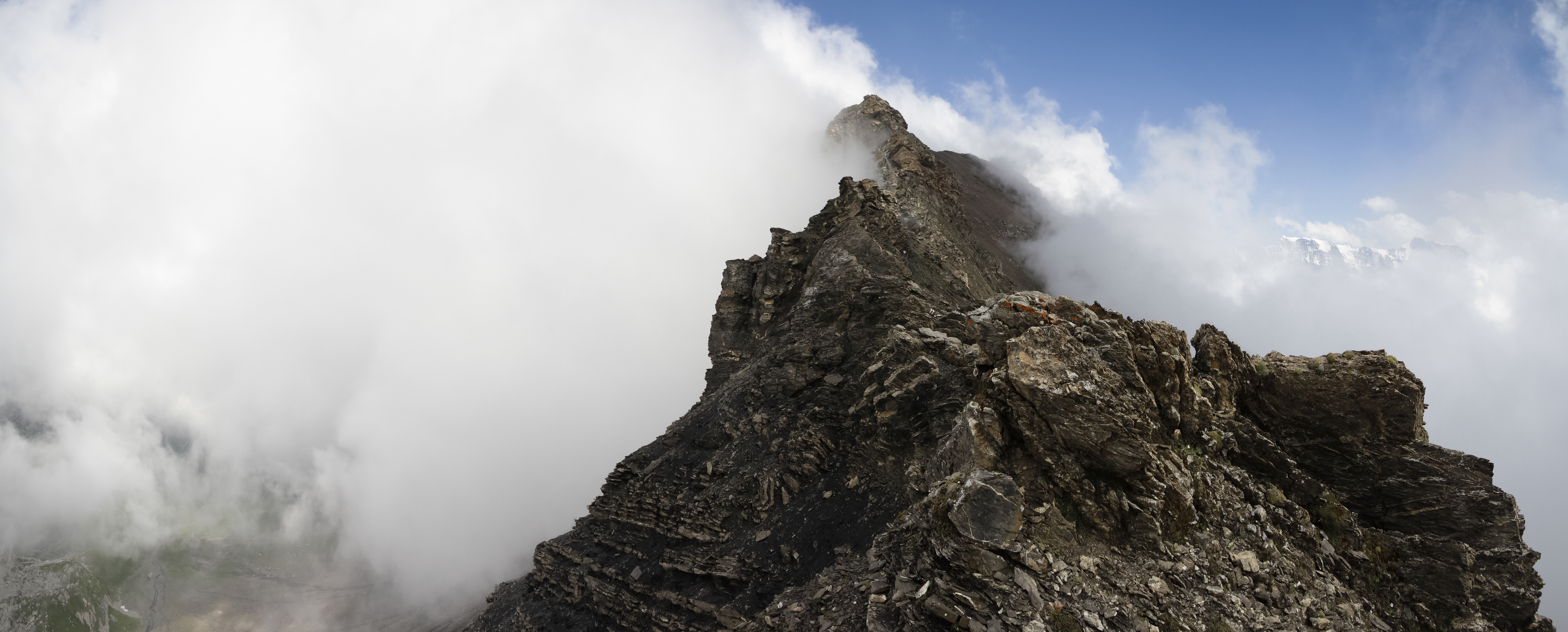 A view towards east from the west ridge of Schilthorn in the canton of Bern, Switzerland in 2012 August. This ridge is the final ascent to the summit of Schilthorn from the west side (via Roter Herd).